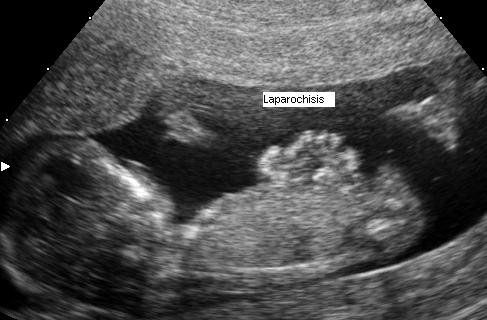 Laparochisis Sagittal View.